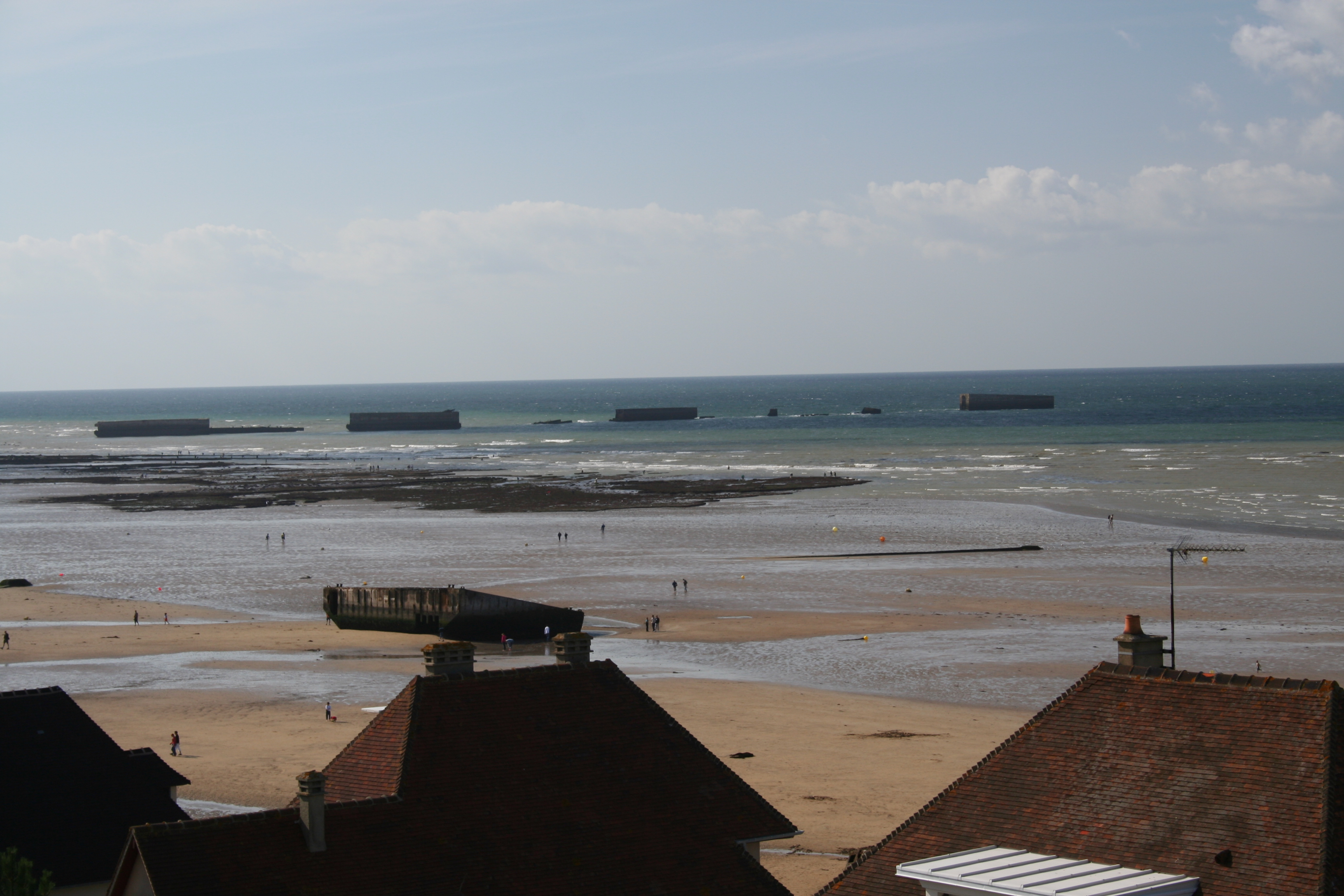 Pontoon bridge structures in Arromanches, Normandy, France.